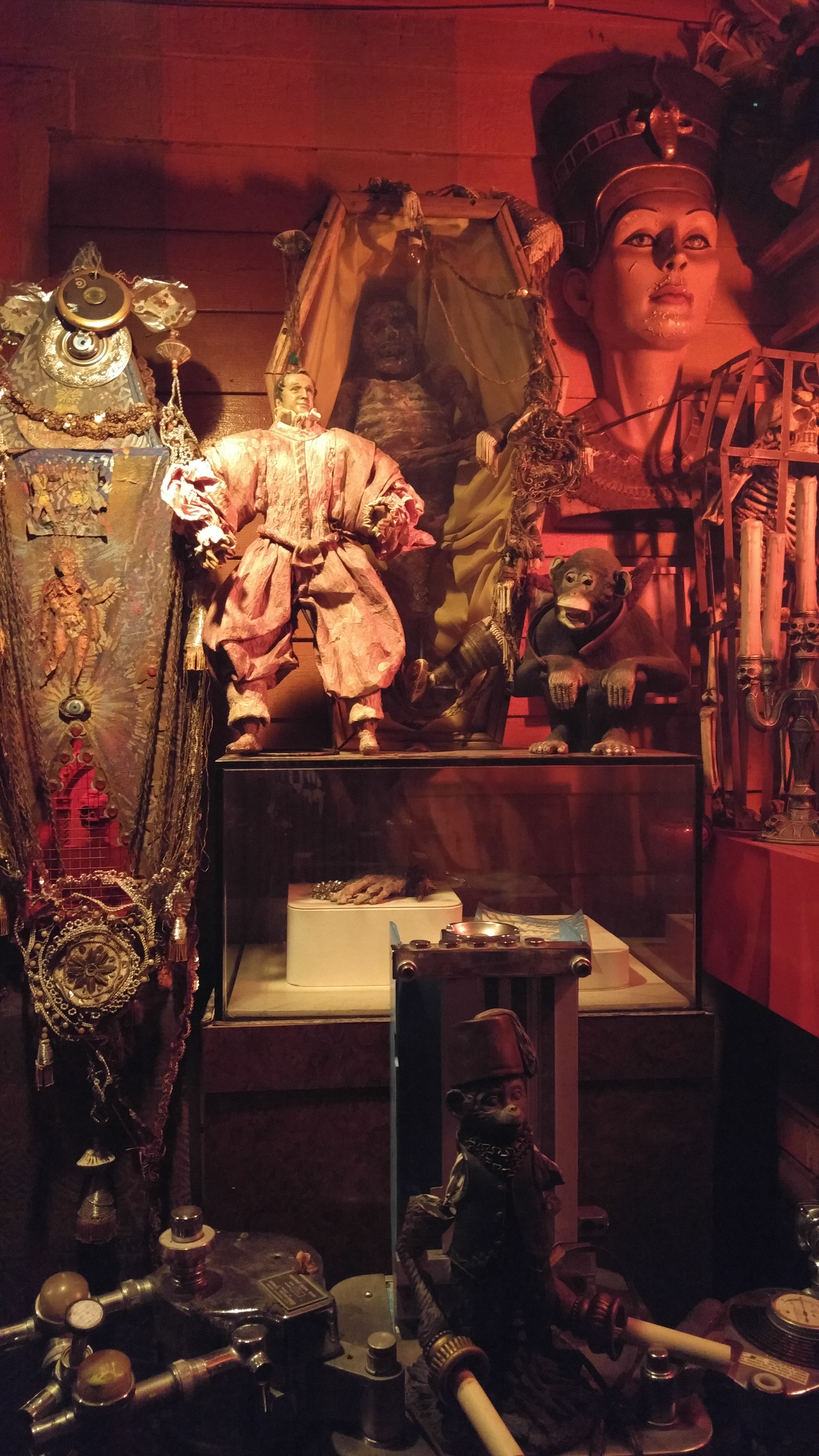 A picture of some of the displays at the California Institute of Abnormalarts in North Hollywood.